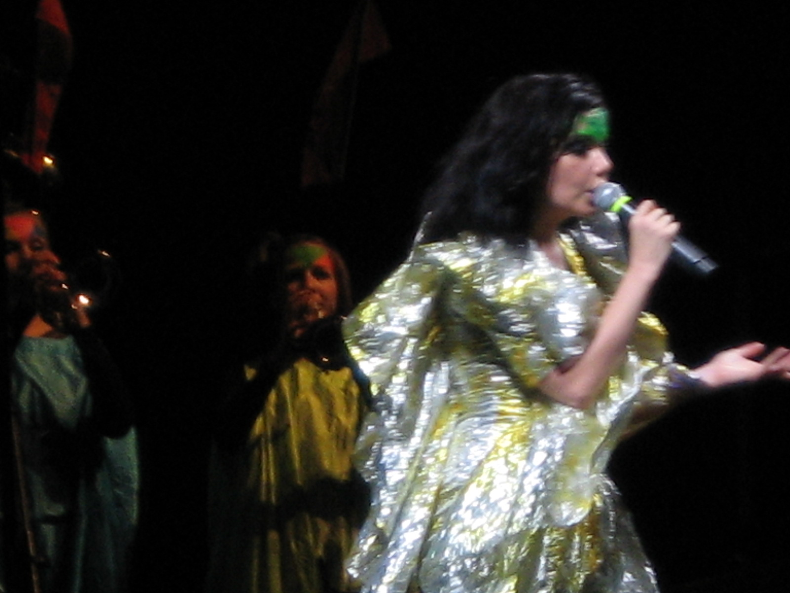 Björk in concert on Toronto Island (September 8, 2007).bjork